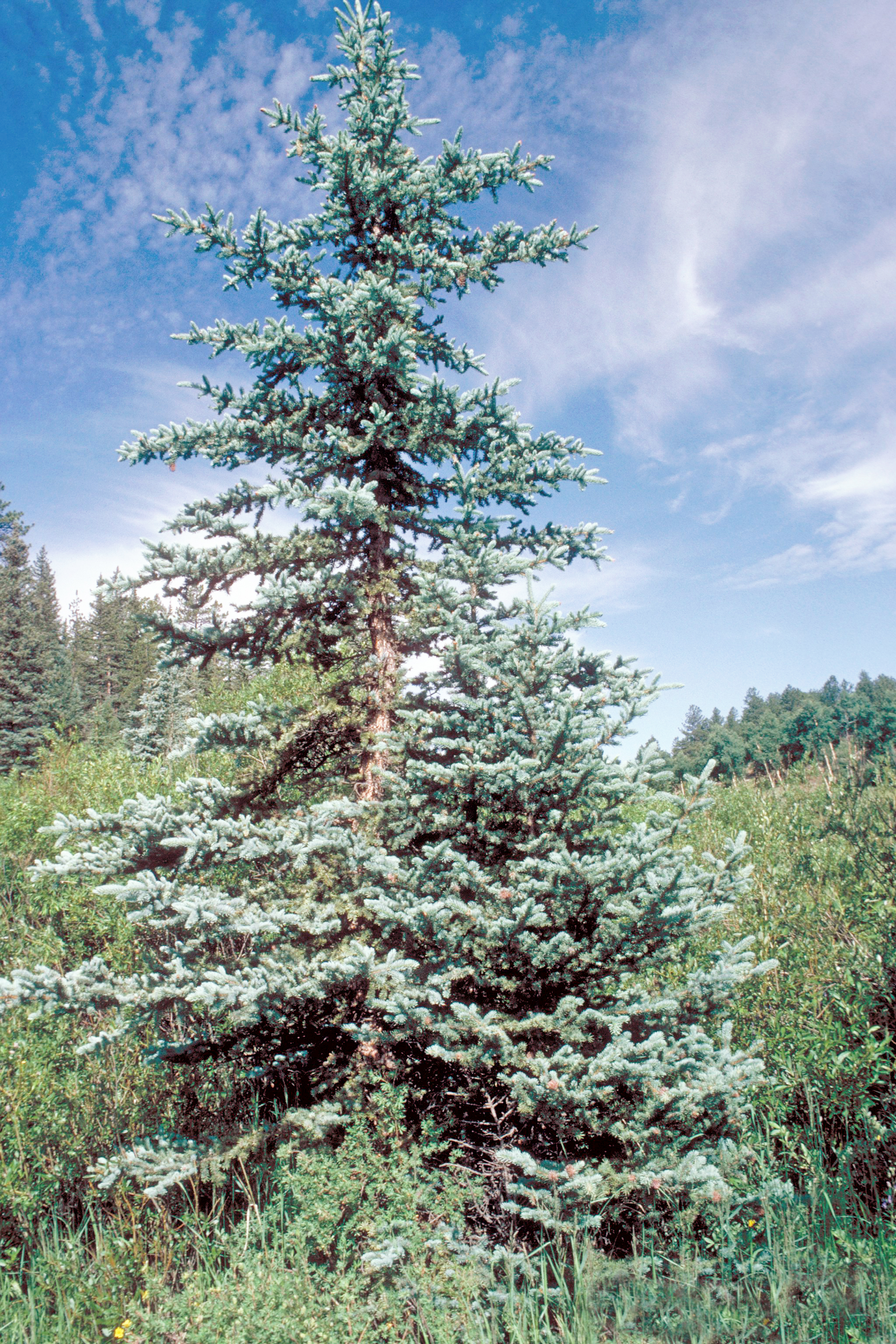 Picea pungens young tree. Rocky Mountain Region, USA.